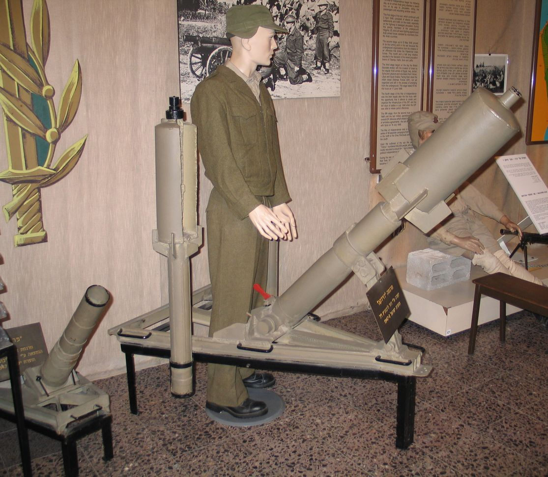 Description: Davidka mortar in Batey ha-Osef Museum, Tel Aviv, Israel. 2005. Source: Photo by me, User:Bukvoed.